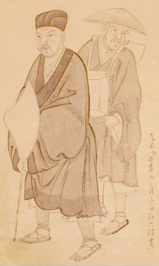 Matsuo Basho by Morikawa Kyoriku (1656-1715)